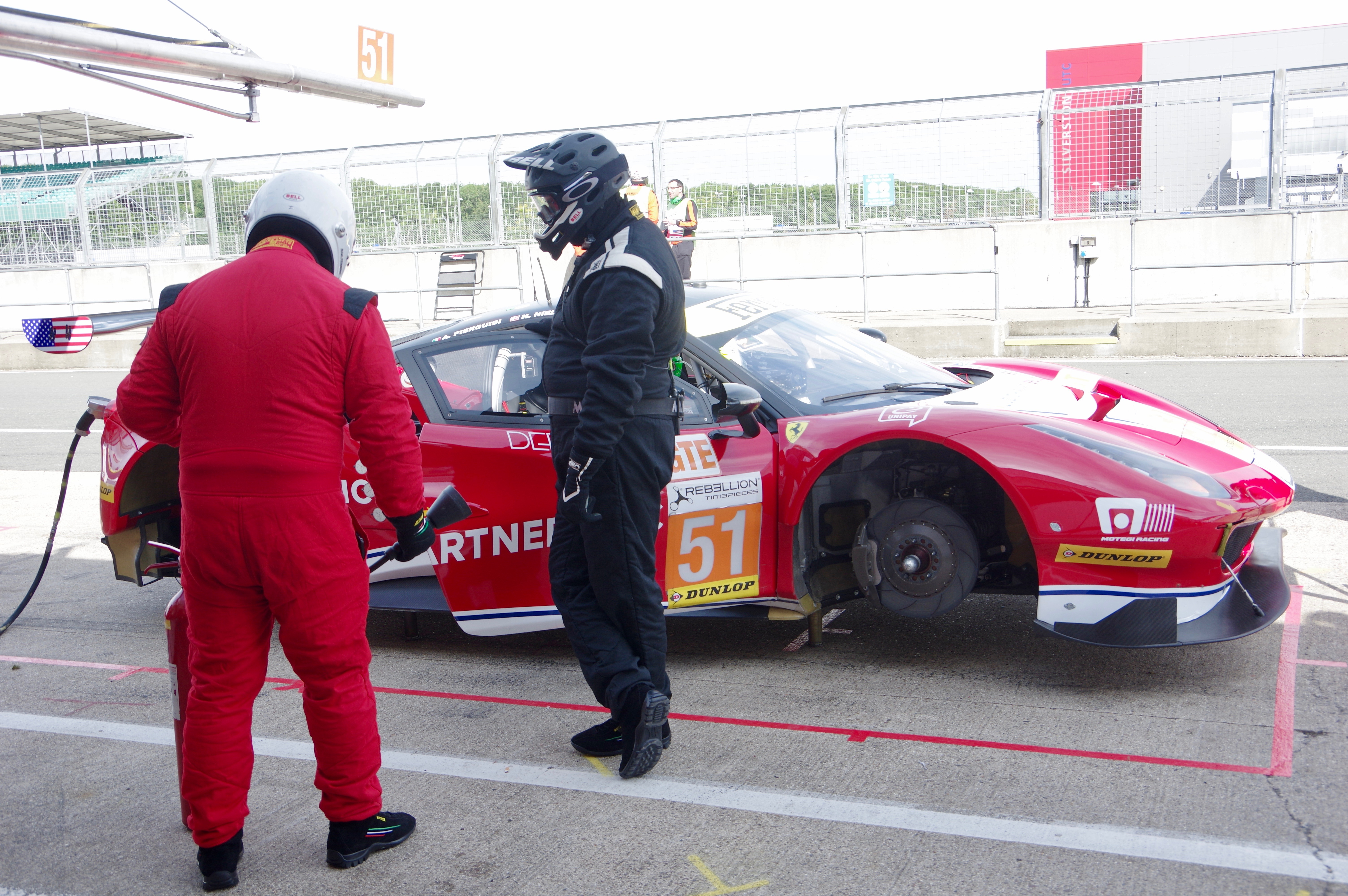 Luzich Racing's Ferrari 488 GTE EVO Driven by Alessandro Pier Guidi, Nicklas Nielsen and Fabien Lavergne